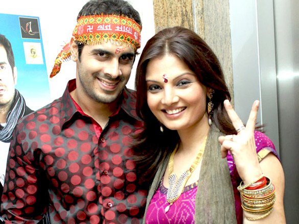 Photo Of Keshav Arora,Deepshikha From The Deepshikha's Mata Ki Chowky and Keshav Arora birthday bash